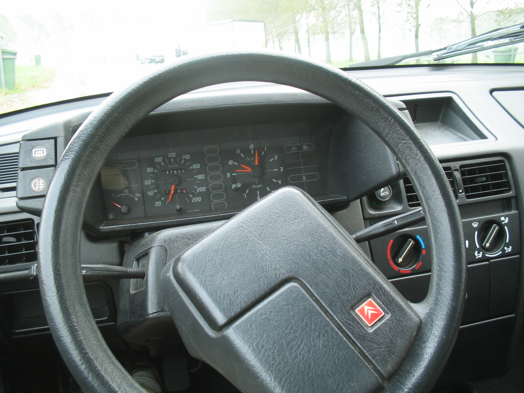 Citroën BX dashboard.